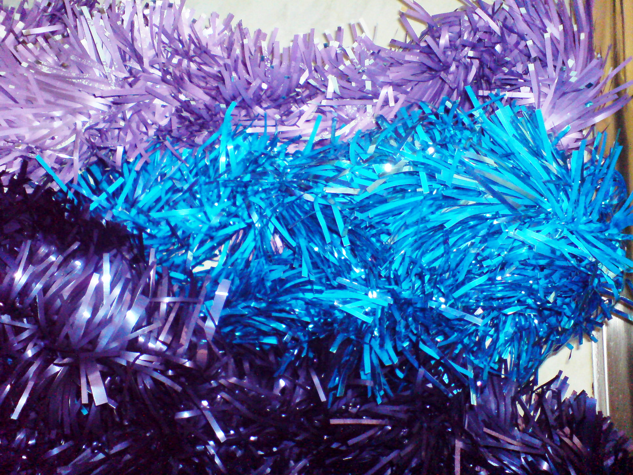 Photograph of blue, lilac and purple tinsel to illustrate typical Christmas decorations.